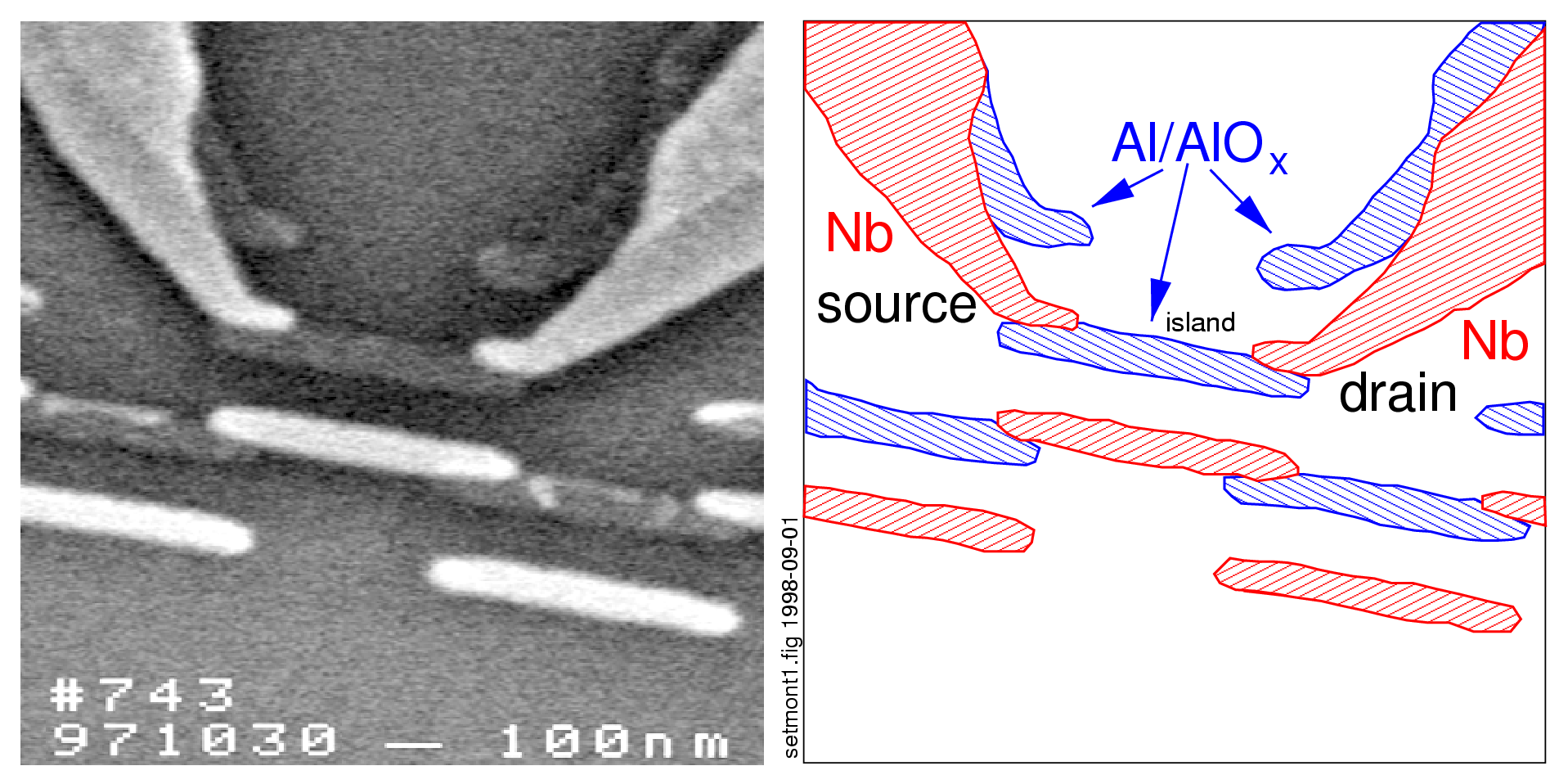 Single electron transistor with niobium leads and aluminium island. Left: scanning electron micrograph Right: artistic interpretation.